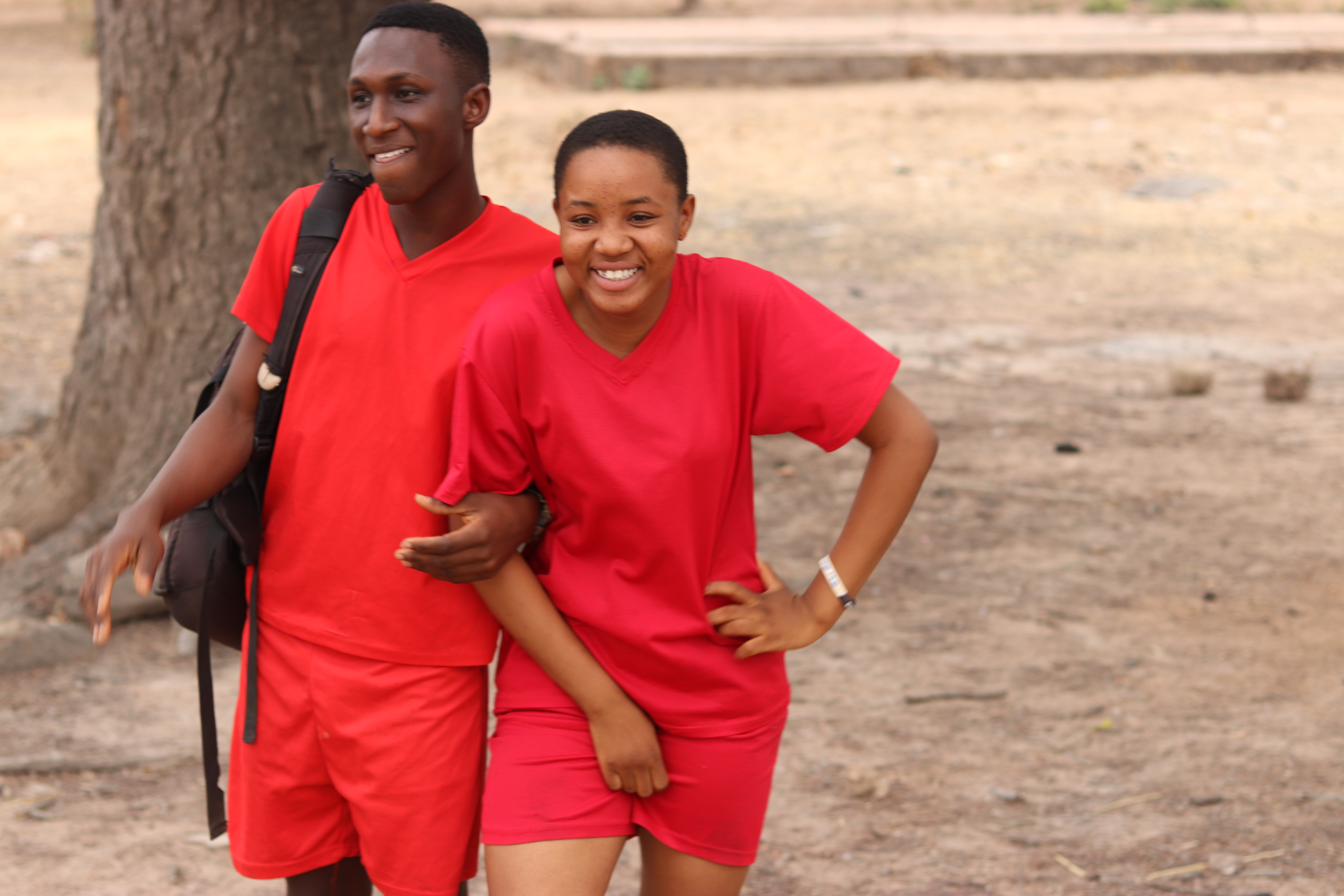 Senior High education in Africa